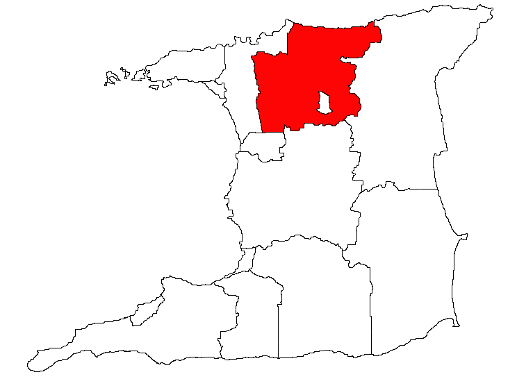 Location map of the Tunapuna-Piarco Regional Corporation, Trinidad and Tobago